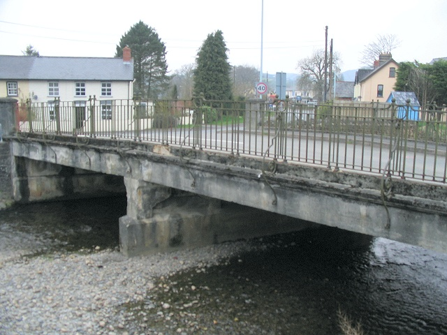 Old bridge over River Cammarch at Beulah Since the 1940 map, a new bridge and road have been built to travel northeast out of Beulah. This is the older and much more interesting looking one, just a little further south, downstream. It is labelled as a weak bridge though.